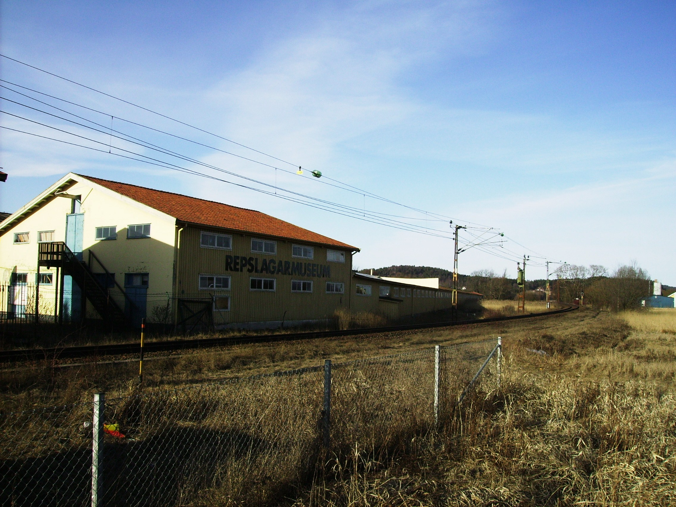 Picture of Repslagarmuseum